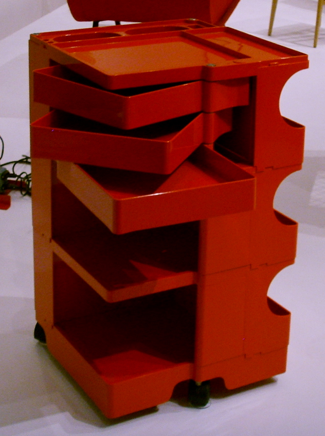 Joe colombo, boby 3, portable storage system, 1969, moma